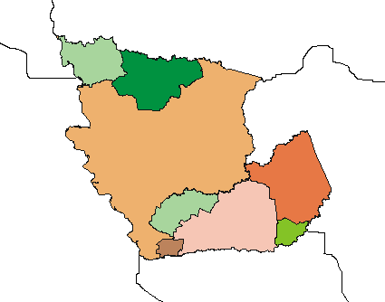 Map of the Concepcion department, Paraguay